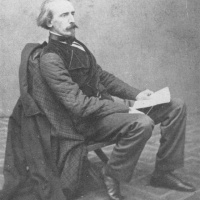 Josef Mánes, Czech painter in ca. 1860, Prag.